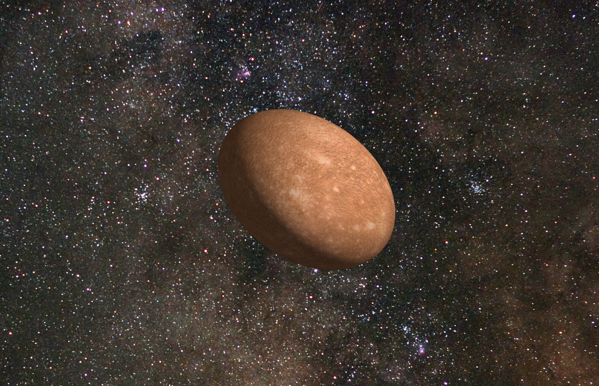 en:20000 Varuna artistic model on triaxial sphere